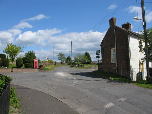 Crossroads at Templand. A view looking east to the crossroads on the B7020 at Templand, from the lane to Parkgate.